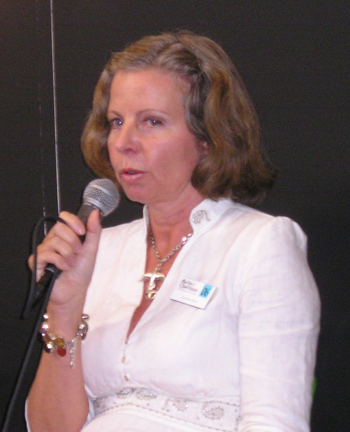 Swedish TV personality, Caroline Giertz, during the 2006 Gothenburg Bookfair